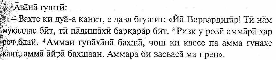 تاجکستانی بلوچانی سیاهگ